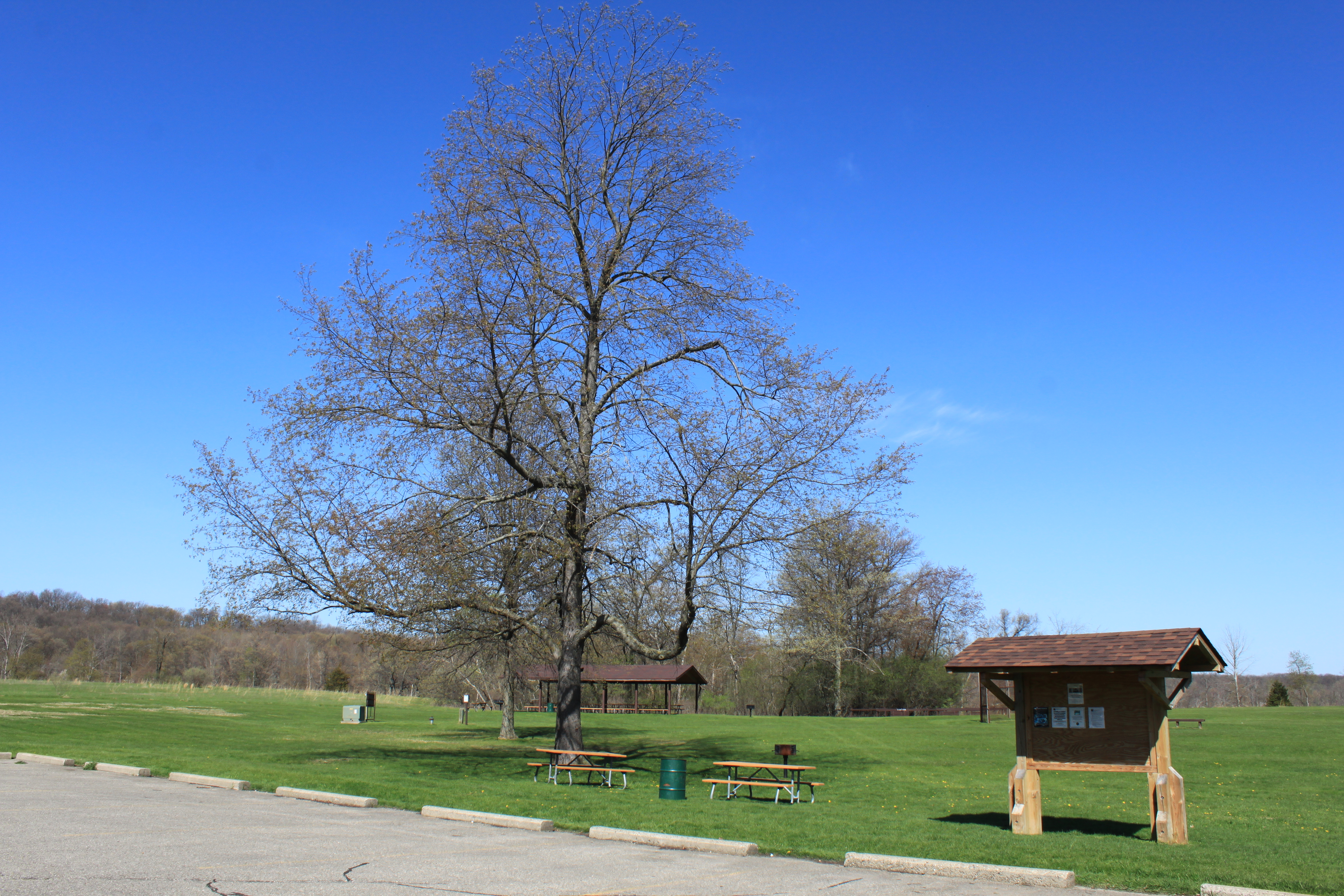 Higland Recreation Area, Goose Meadow Picnic Area, Highland, Michigan